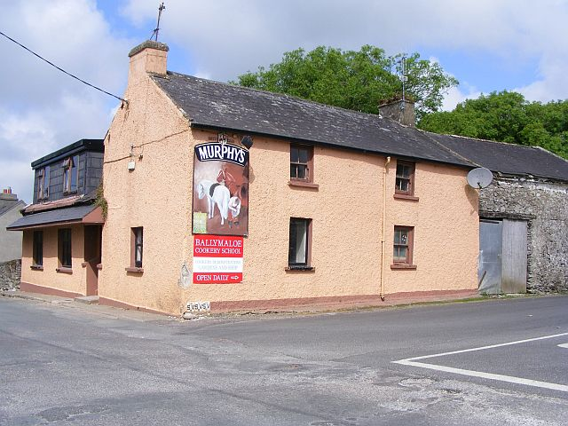 Pub, Shanagarry, Cork, near to Monagurra, Ballybraher, Loughane, Shanagarry and Baile Choitin, Cork, Ireland. I wish that I had found out the name of this pub. The mural would suggest some connection with a blacksmith or farrier.